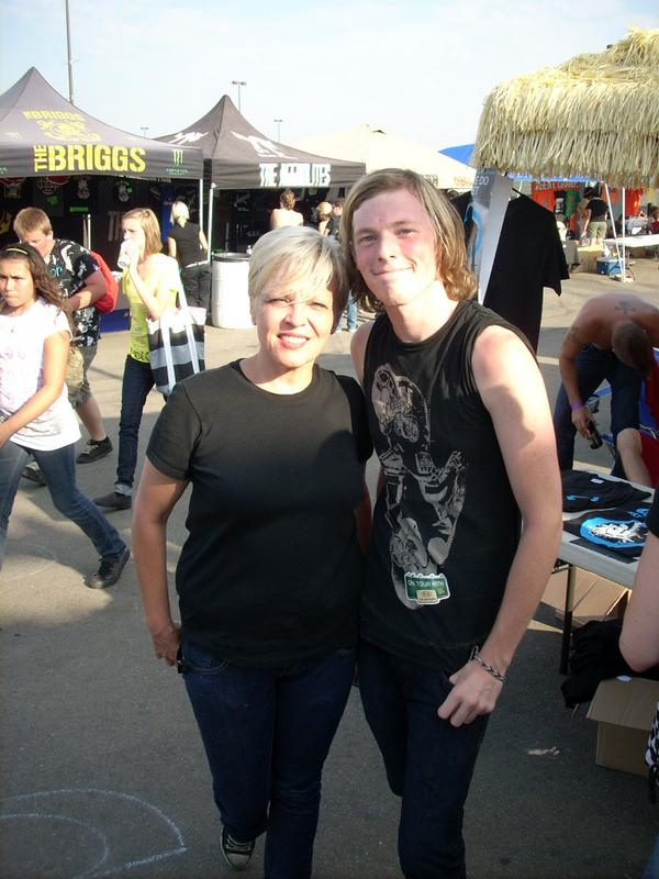 Lorna Doom, Bassist of the Germs with a fan at Warped Tour 2008.